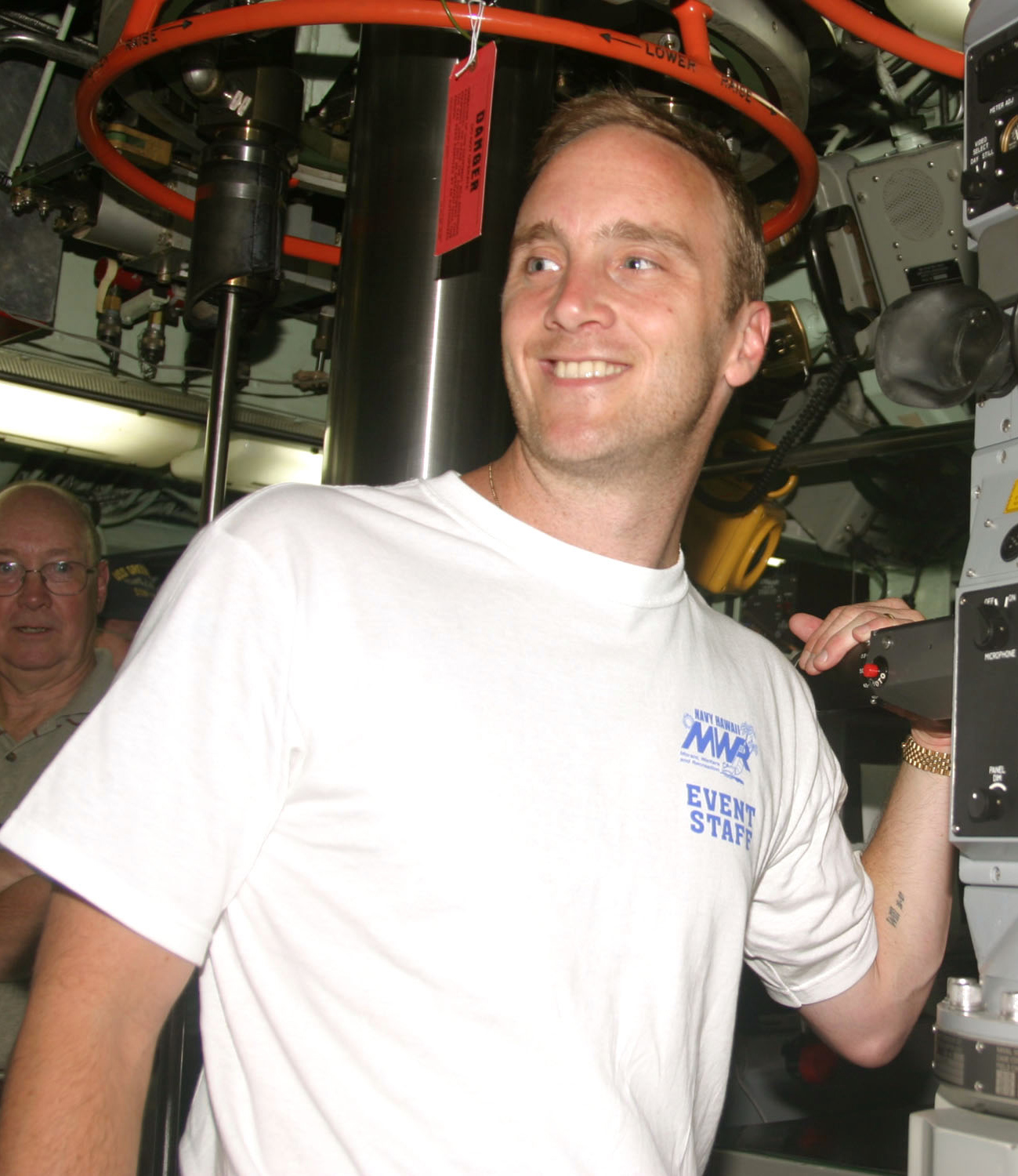 040702-N-5539C-001 Pearl Harbor, Hawaii (July 2, 2004) – Comedian/Actor Jay Mohr took time out of his busy schedule to visit with the Sailors aboard the Los Angeles class fast attack submarine USS Greeneville (SSN 772).